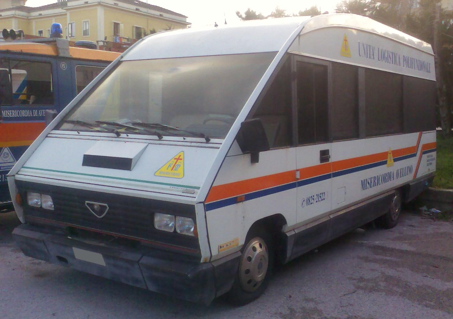 Alfa Romeo AR8 Ambulance